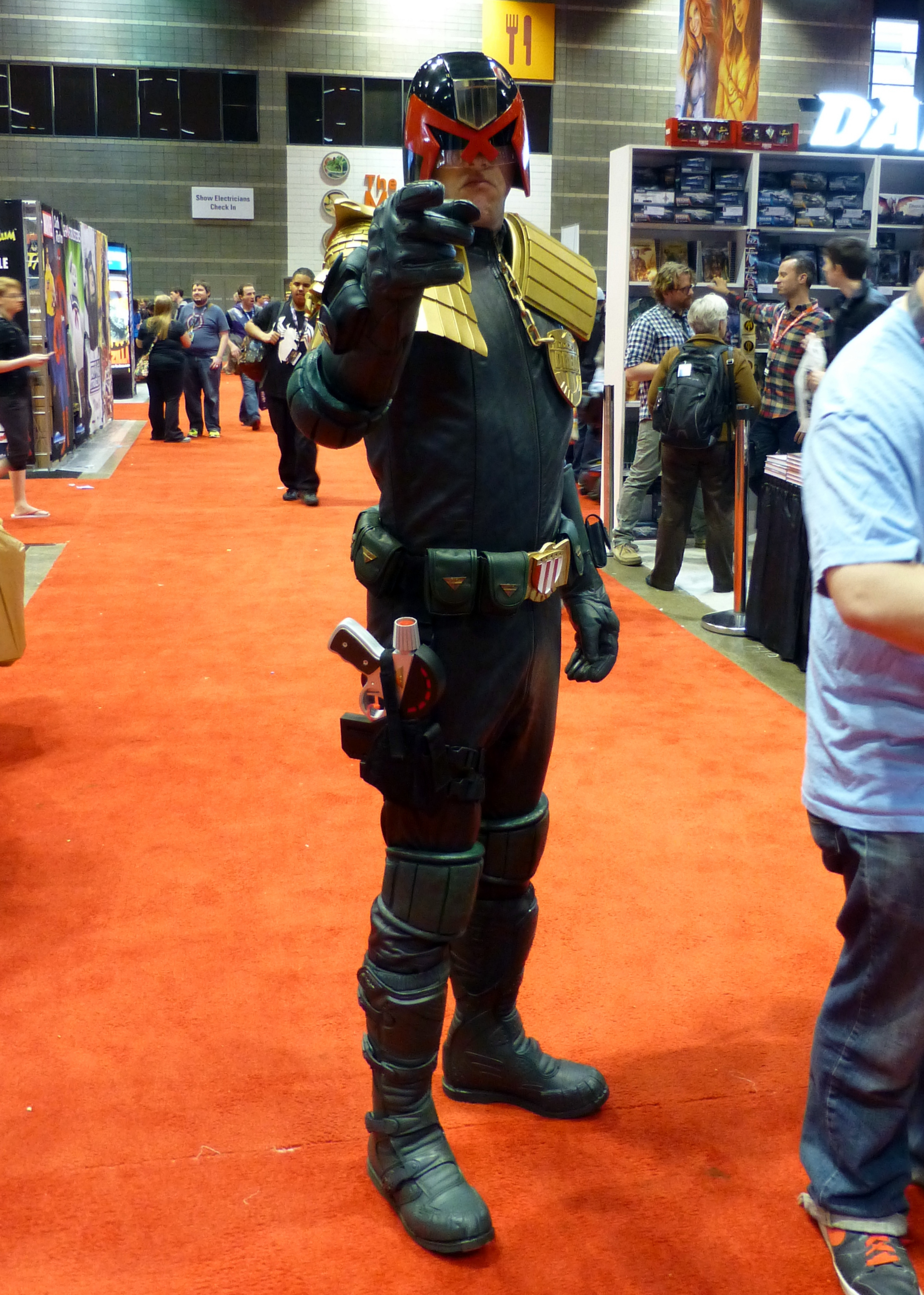 Cosplay of Judge Dredd at Chicago Comic & Entertainment Expo (C2E2) 2014.